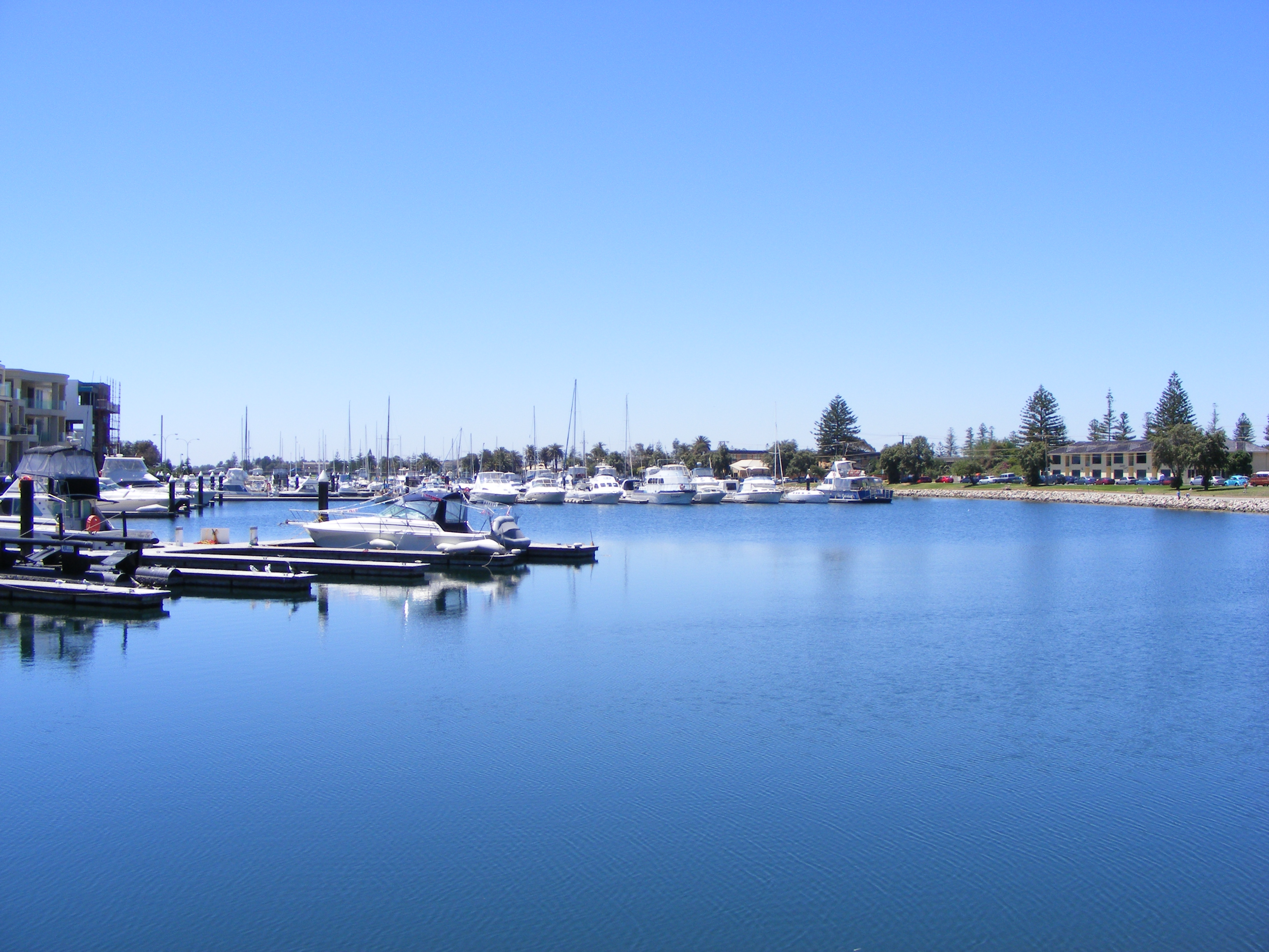 The at Glenelg, South Australia showing the Marina. View looking north from Wigley Reserve